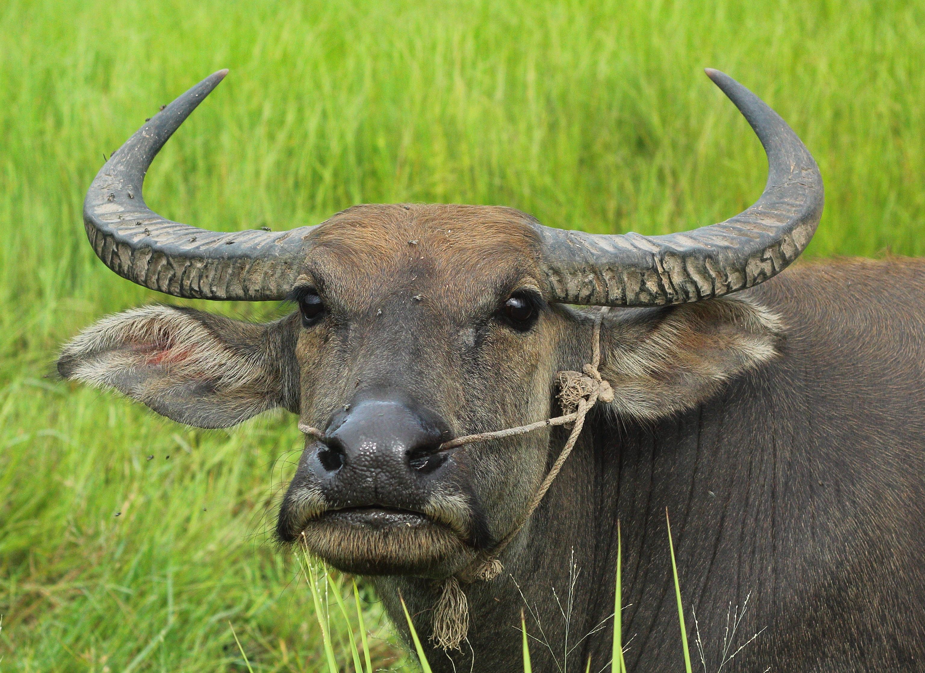 Water buffalo of Cambodia ភាសាខ្មែរ: ក្របីទឹកកម្ពុជា